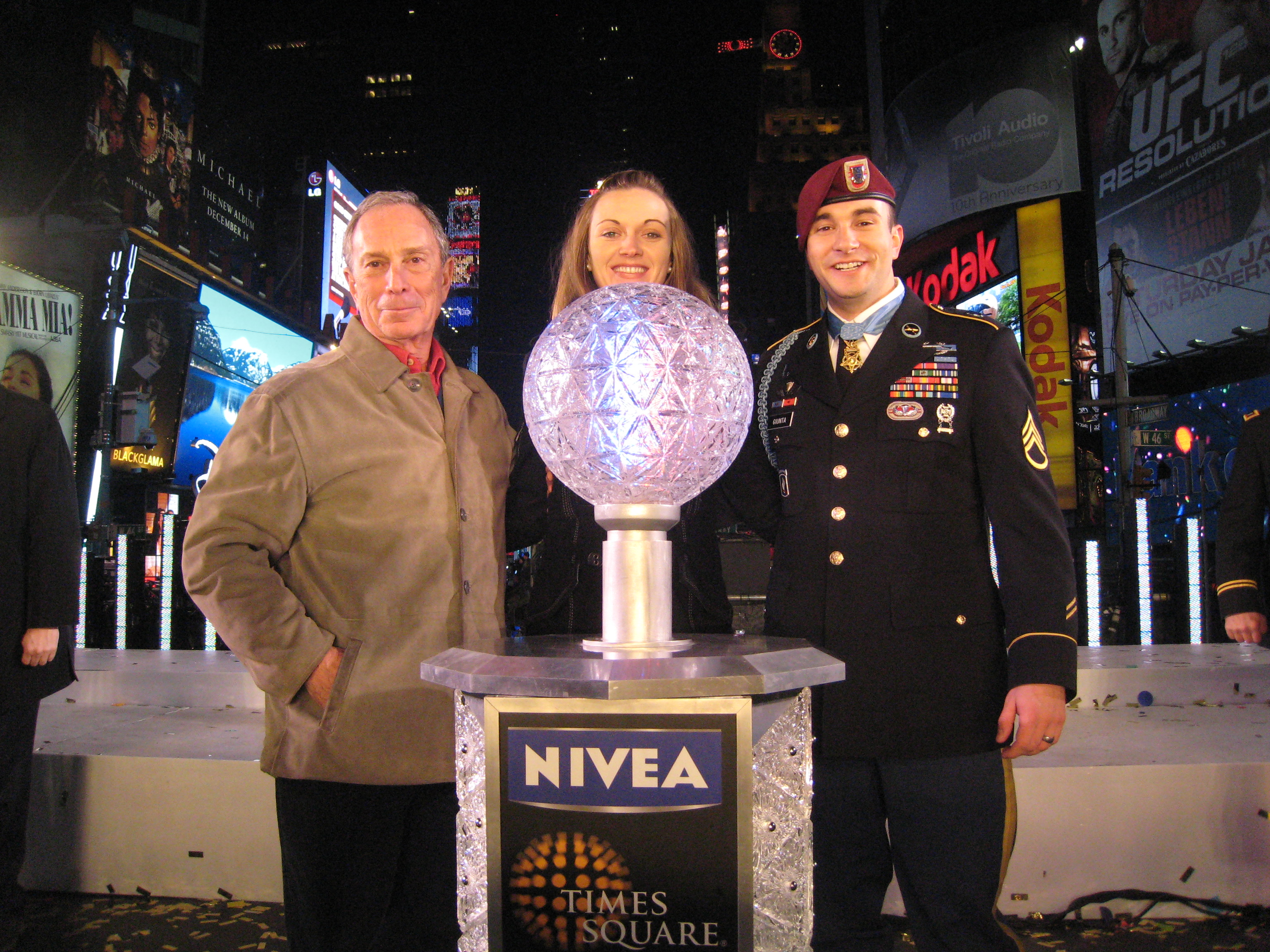 New York City Mayor Michael Bloomberg stands with Medal of Honor recipient Staff Sgt. Salvatore A. Giunta and his wife on New Year's Eve.